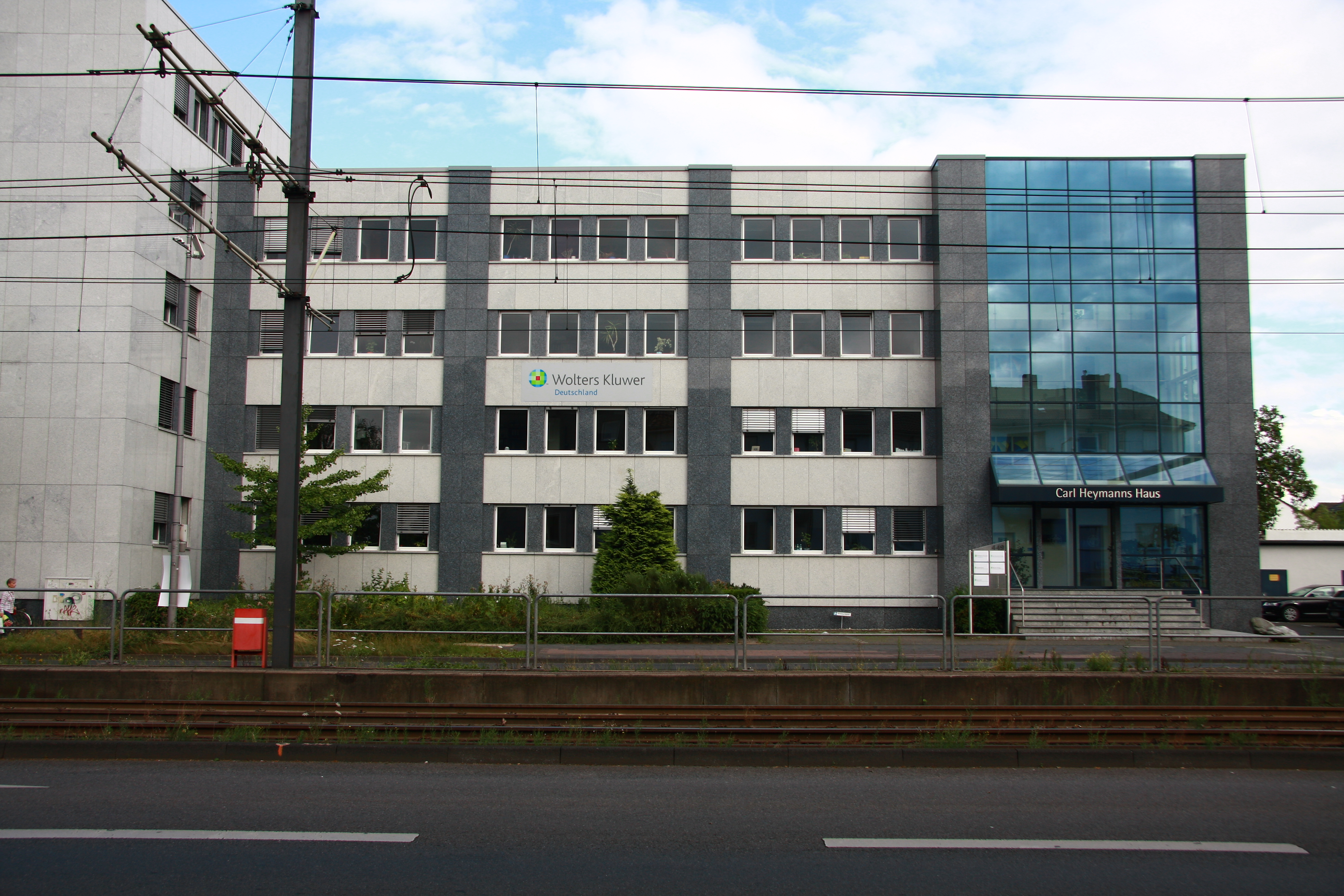 Headquater of Wolters Kluwer Deutschland in Cologne